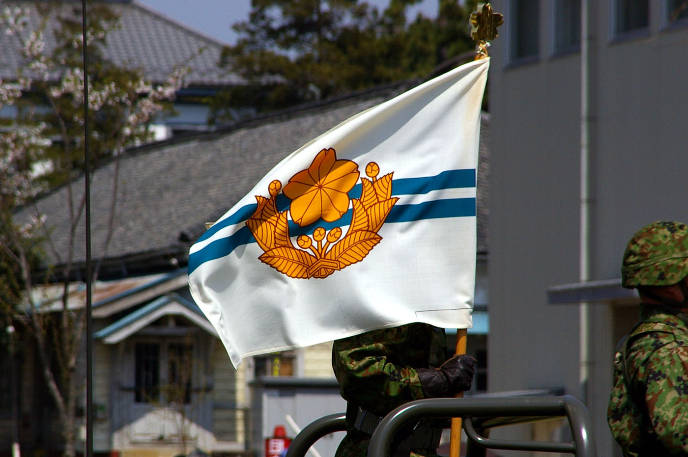 Taken by los688,6-Apr-2008,JGSDF Camp Nrashino.PD-self. ja:2008年4月6日、投稿者撮影。陸上自衛隊習志野駐屯地。空挺大隊旗。